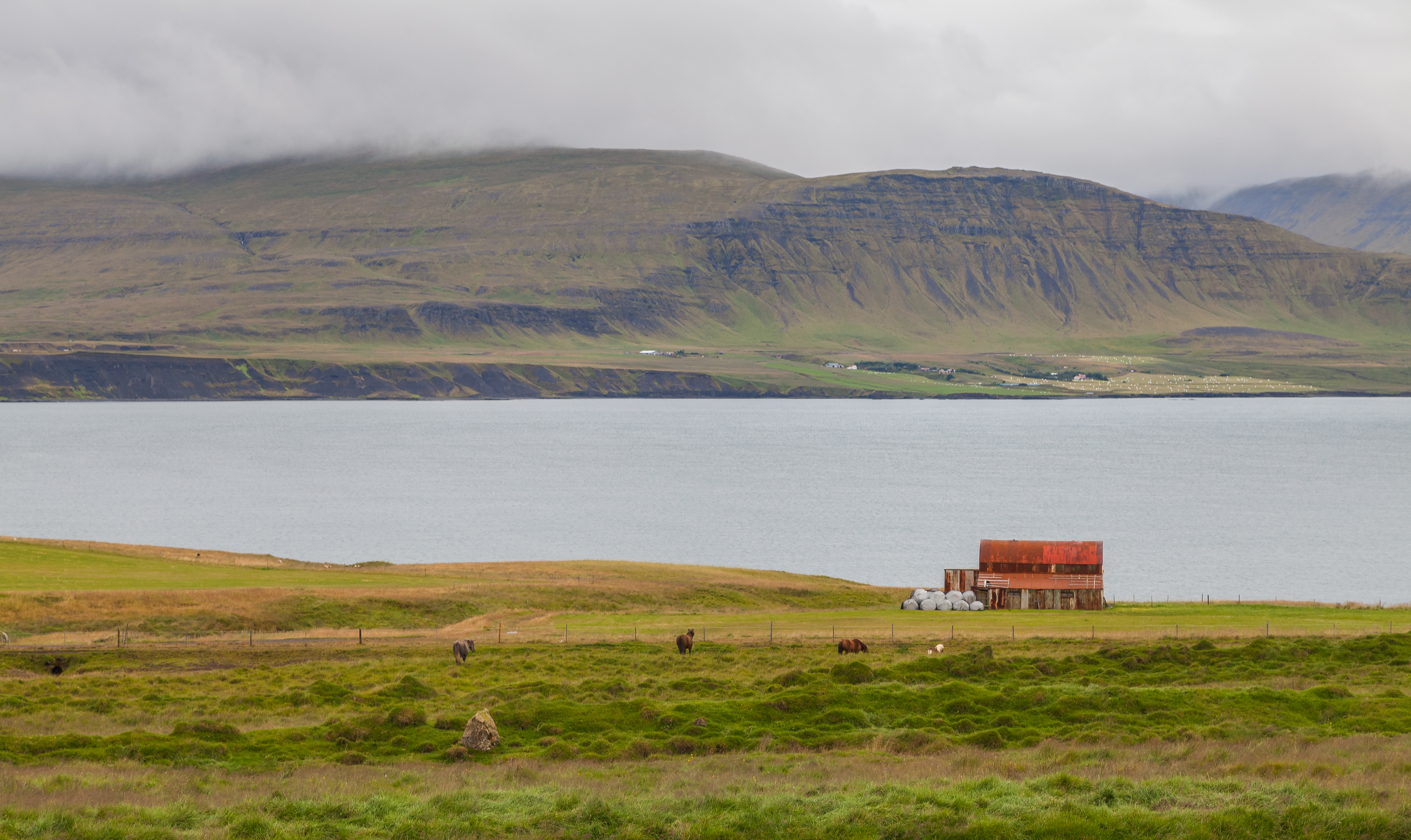 Farm in the peninsula of Akranes, Vesturland, Iceland